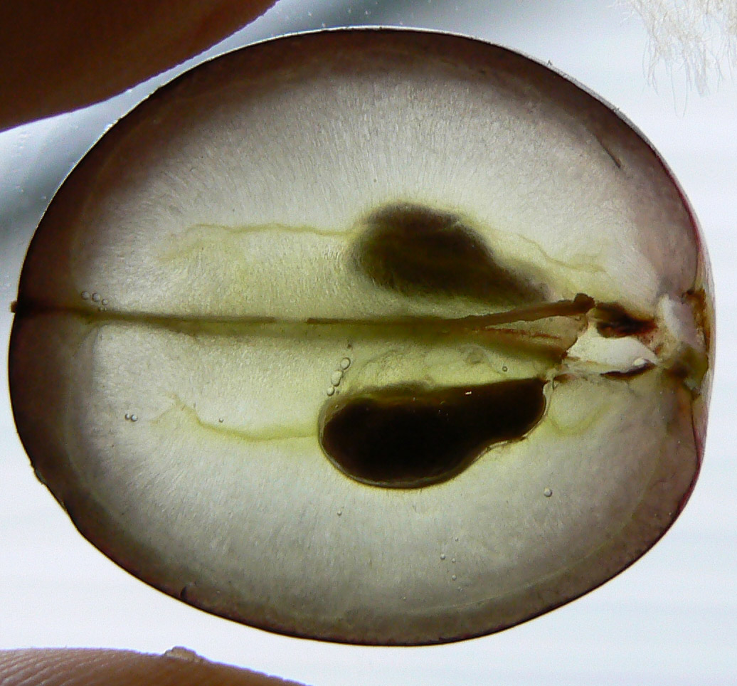 a slice of a dark grape, about 5 mm thin and seen against a window